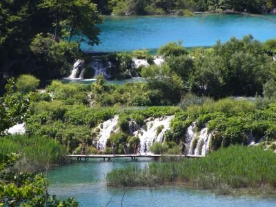 Plitvice Lakes National Park (Croatia).